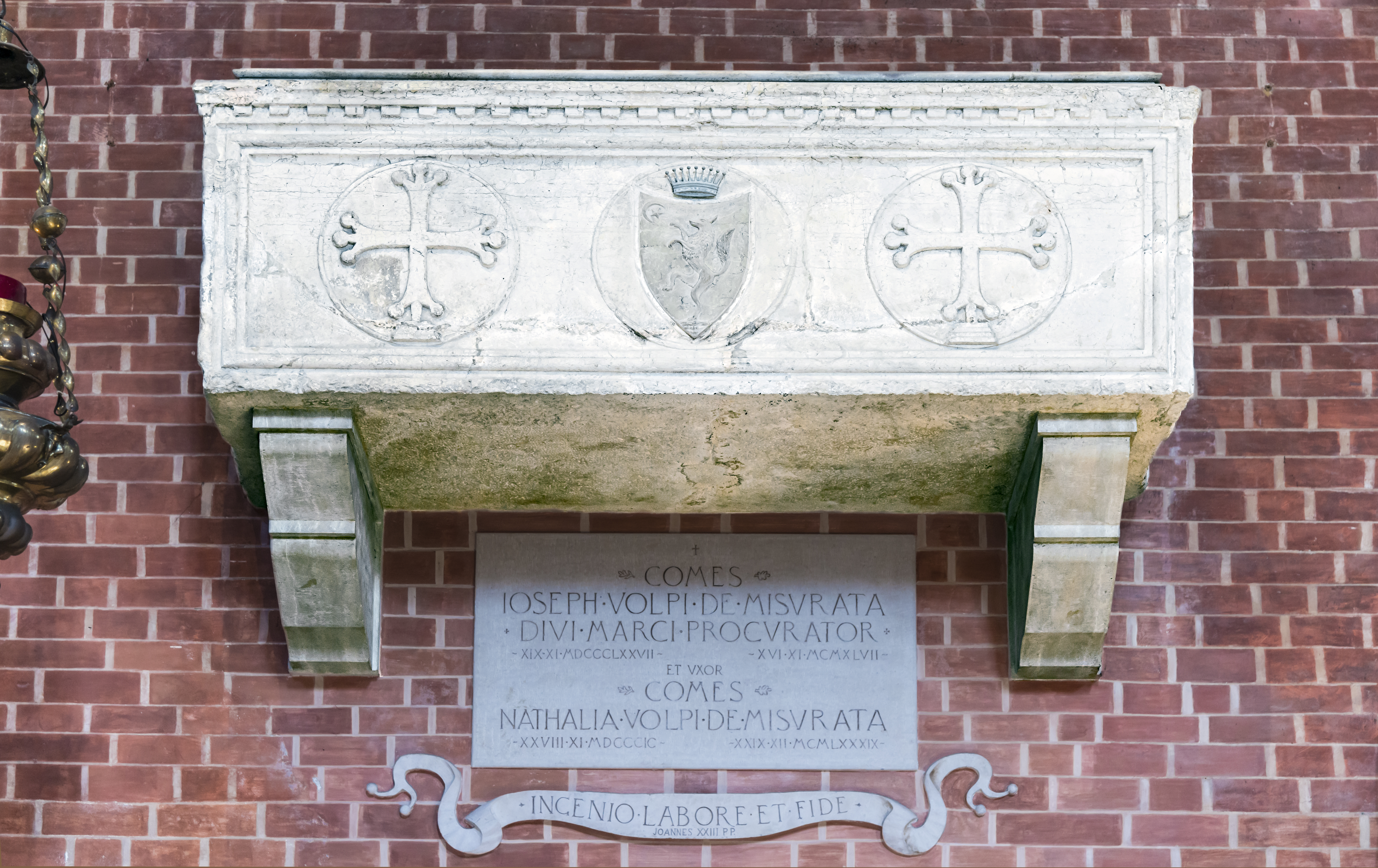 Santa Maria Gloriosa dei Frari, tomb of Giuseppe Volpi, italian businessman and politician.